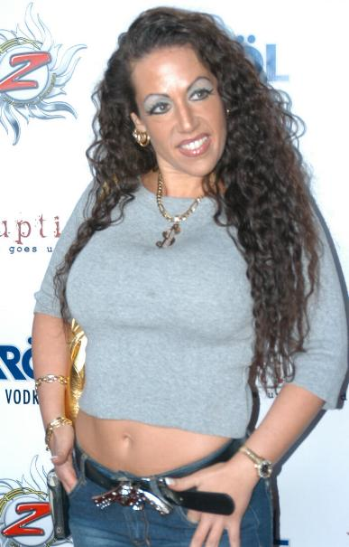 Anjelica Lauren at Bryn Pryor's Corruption Party, November 11 2006